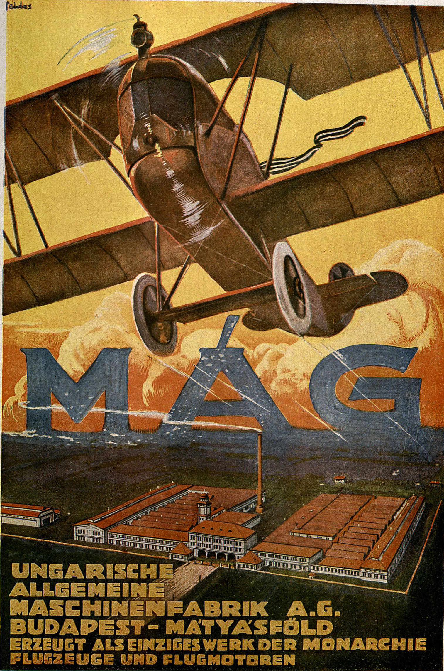 Advertisement of 1918